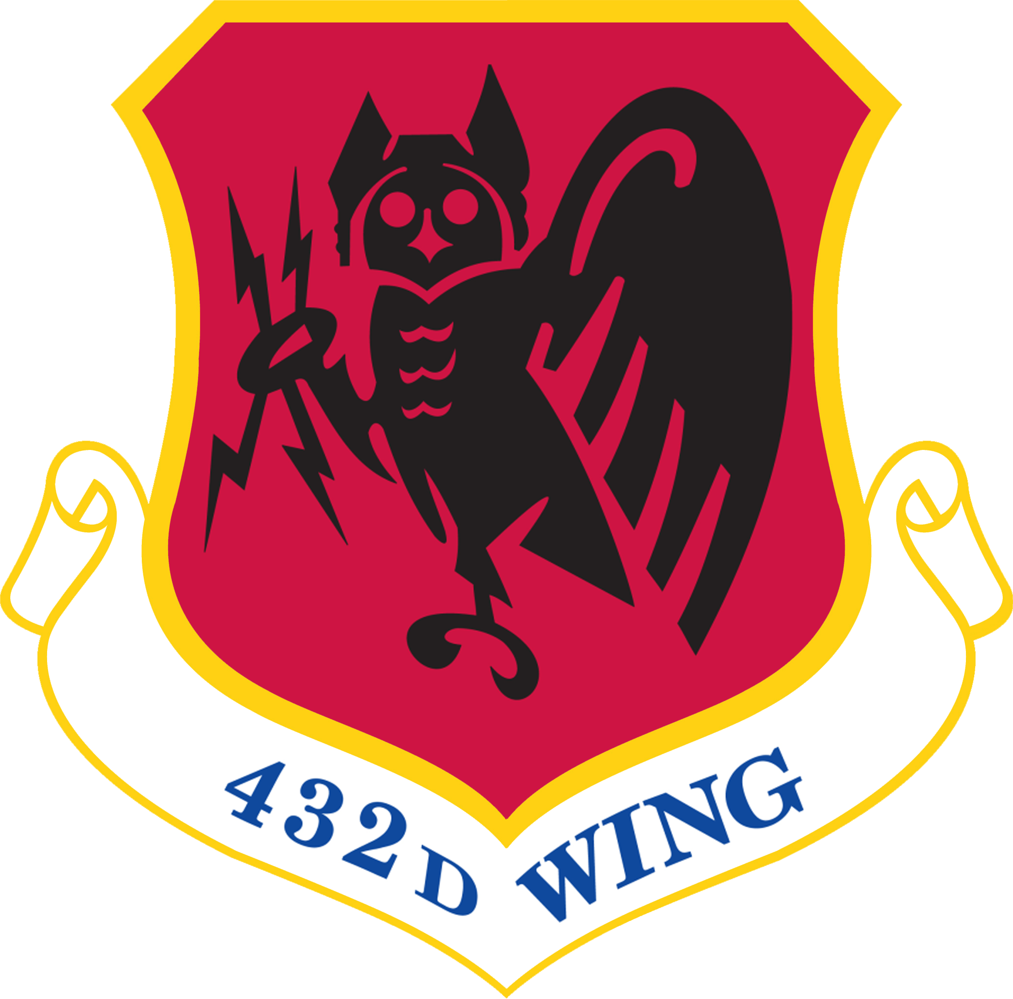 Emblem of the 432d Wing, a wing of the United States Air Force